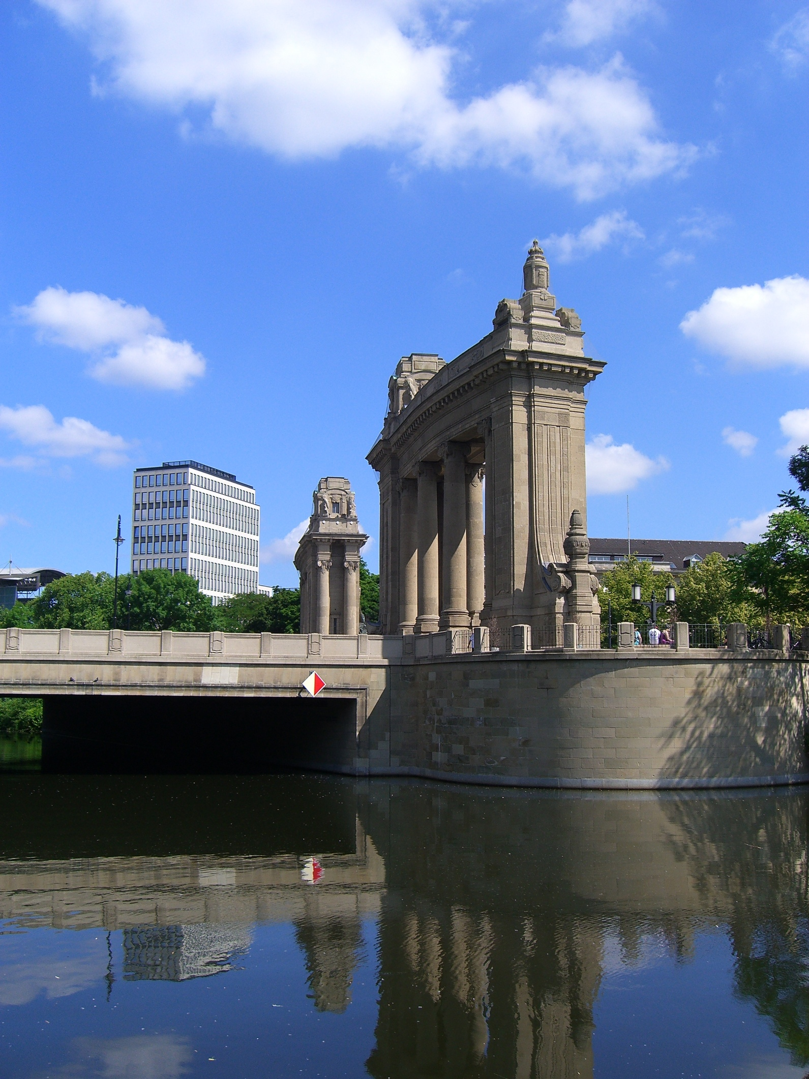 "Charlottenburg Gate" with bridge across the Landwehr Canal in Berlin.